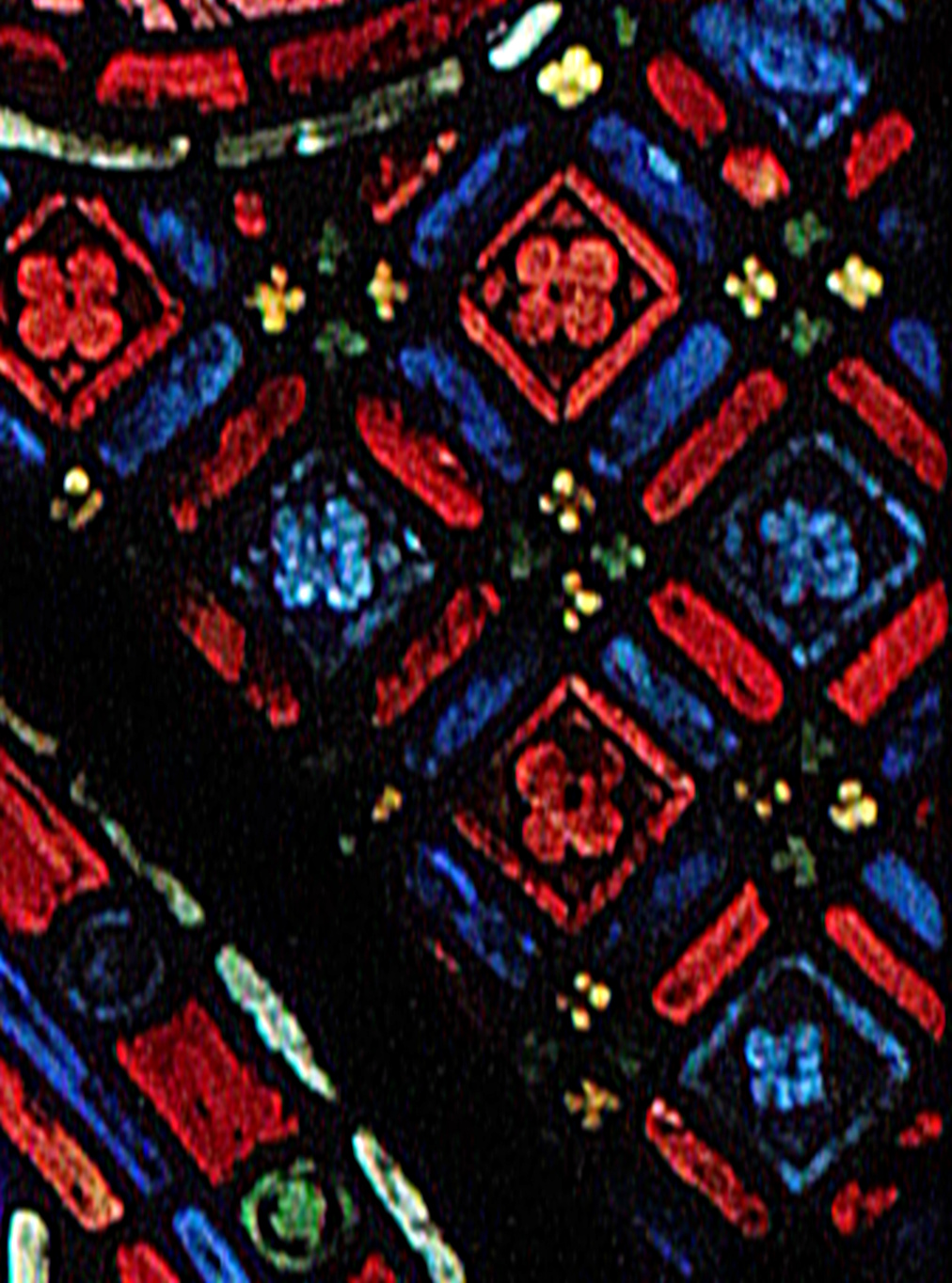 Histoire de saint Silvestre - Story of St Sylvester